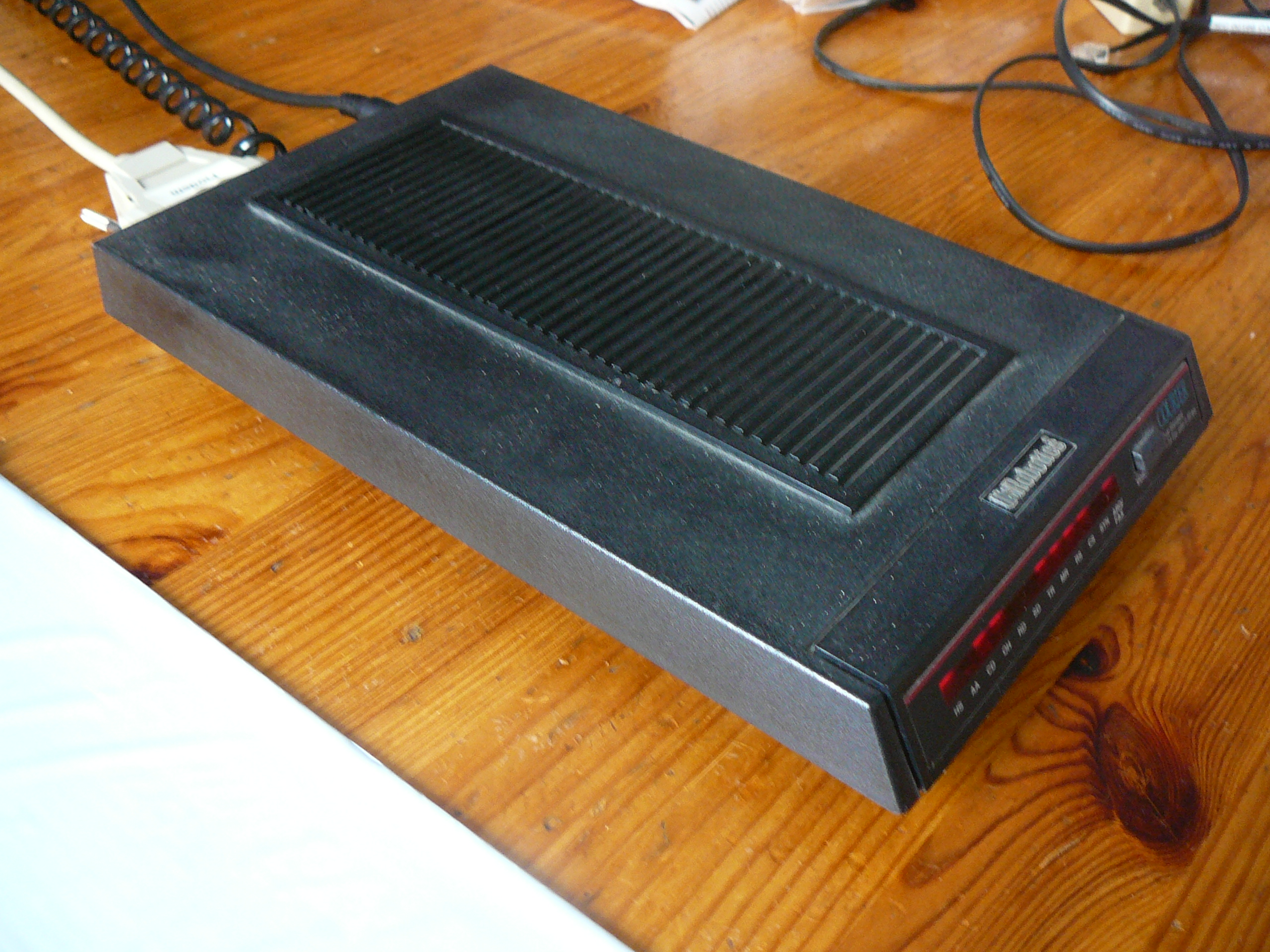 US Robotics analog modem Courier V34. 3/4 side view. On line, with LEDs CD, HS and ARQ on.